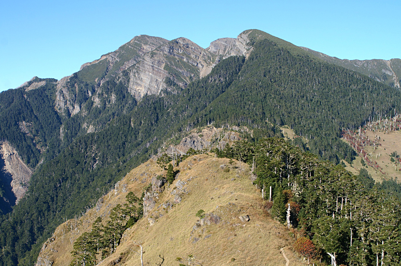 Hsueh Mountain (Snow Mountain)